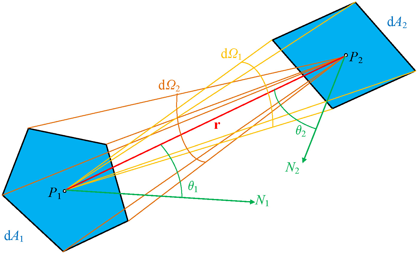 diagram for geometry of specific radiative intensity